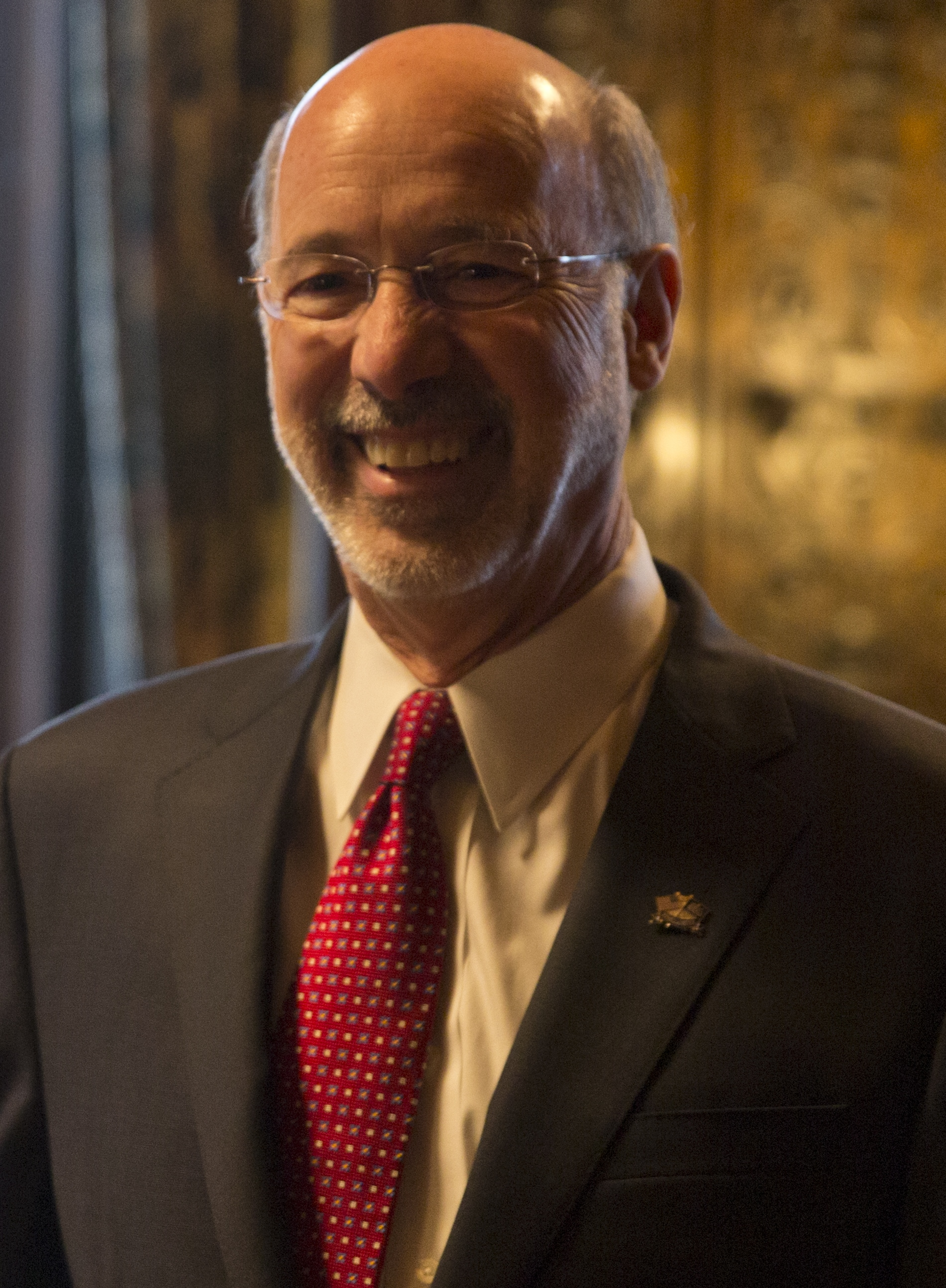 Portrait of Pennsylvania Governor Tom Wolf